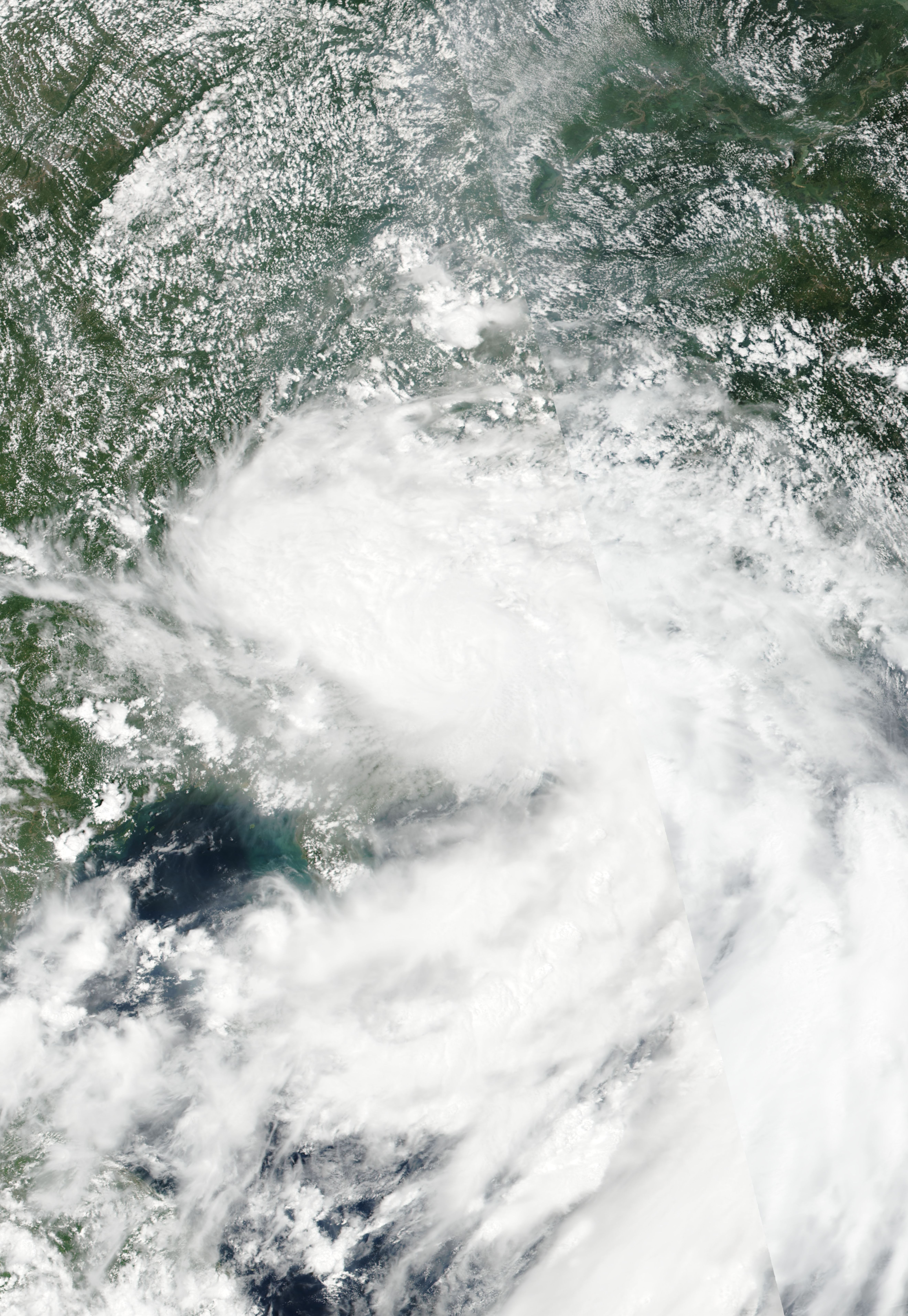 Severe Tropical Storm Pakhar (16W) a few hours after making landfall over southern China on August 27. 1-minute sustained winds are 45 knots.